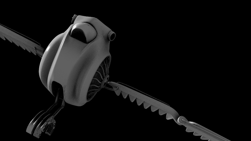 Jorma, the mechanical bird (from the "Elephant's Dream" movie).